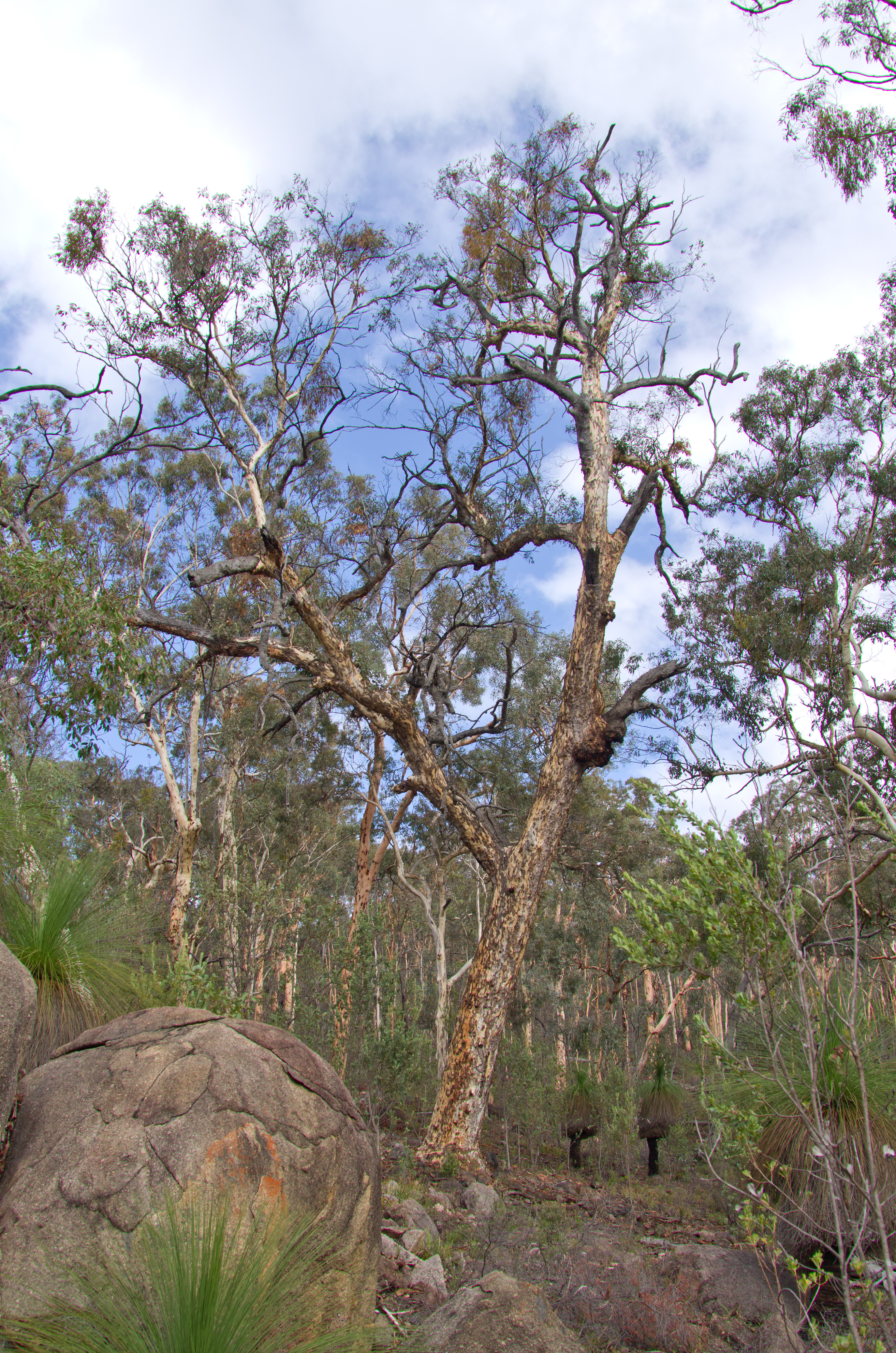 Avon Valley National Park Eucalyptus accedens(Powder-barked Wandoo) Xanthorrhoea(Grasstree)